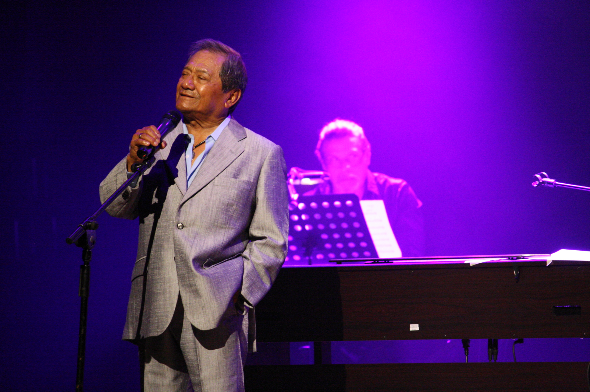 Armando Manzanero during a concert in Cehegín, September 2010 .